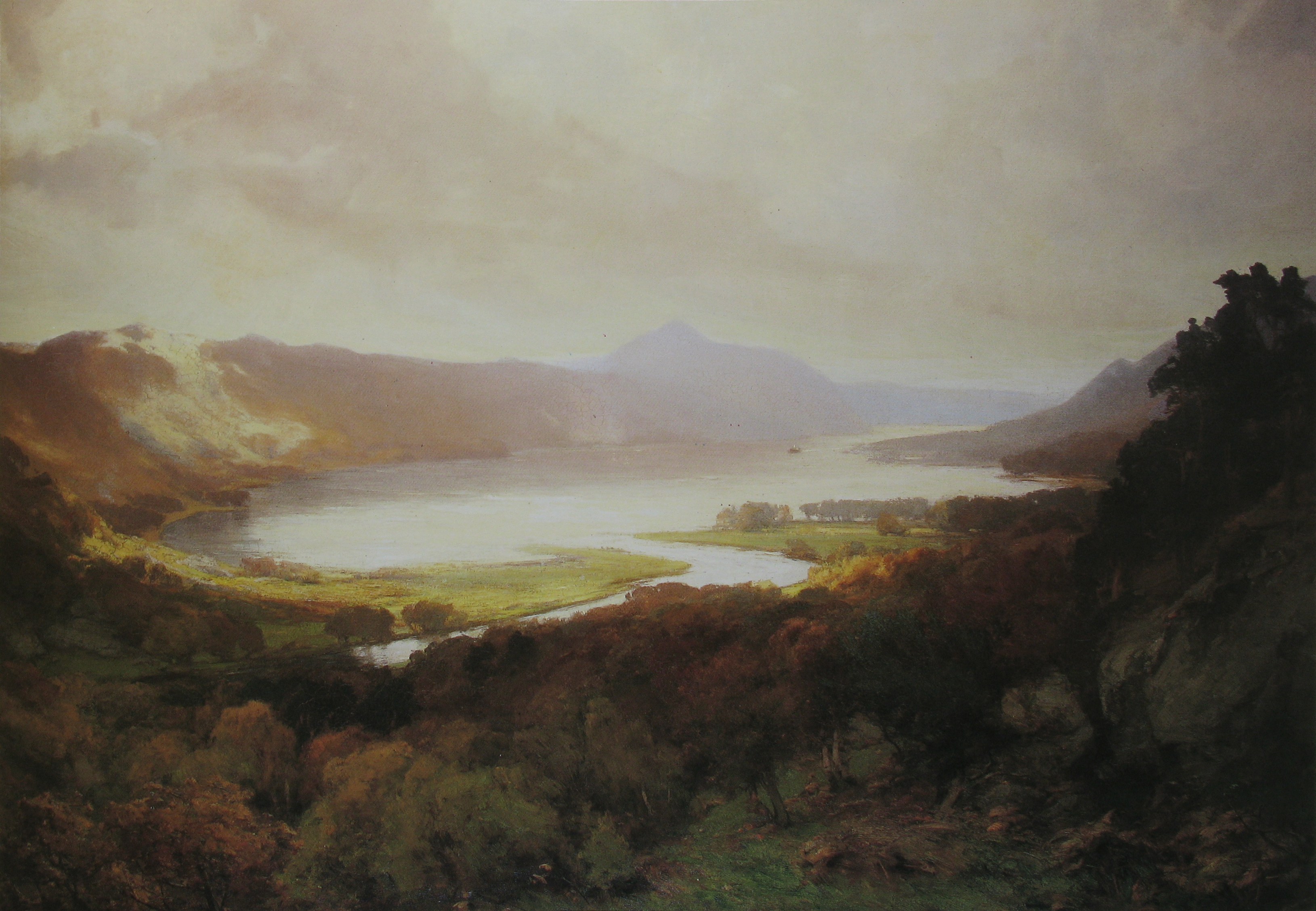 Loch Lomond; Oil on canvas, 122 x 183 cm